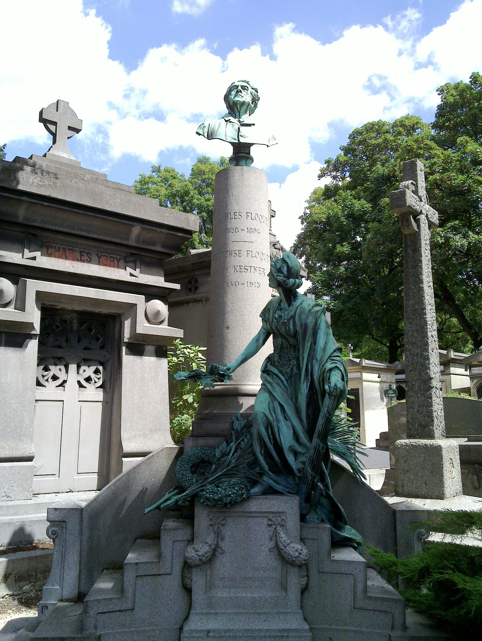 Charles Floquet's grave by Jules Dalou, Père-Lachaise, Paris